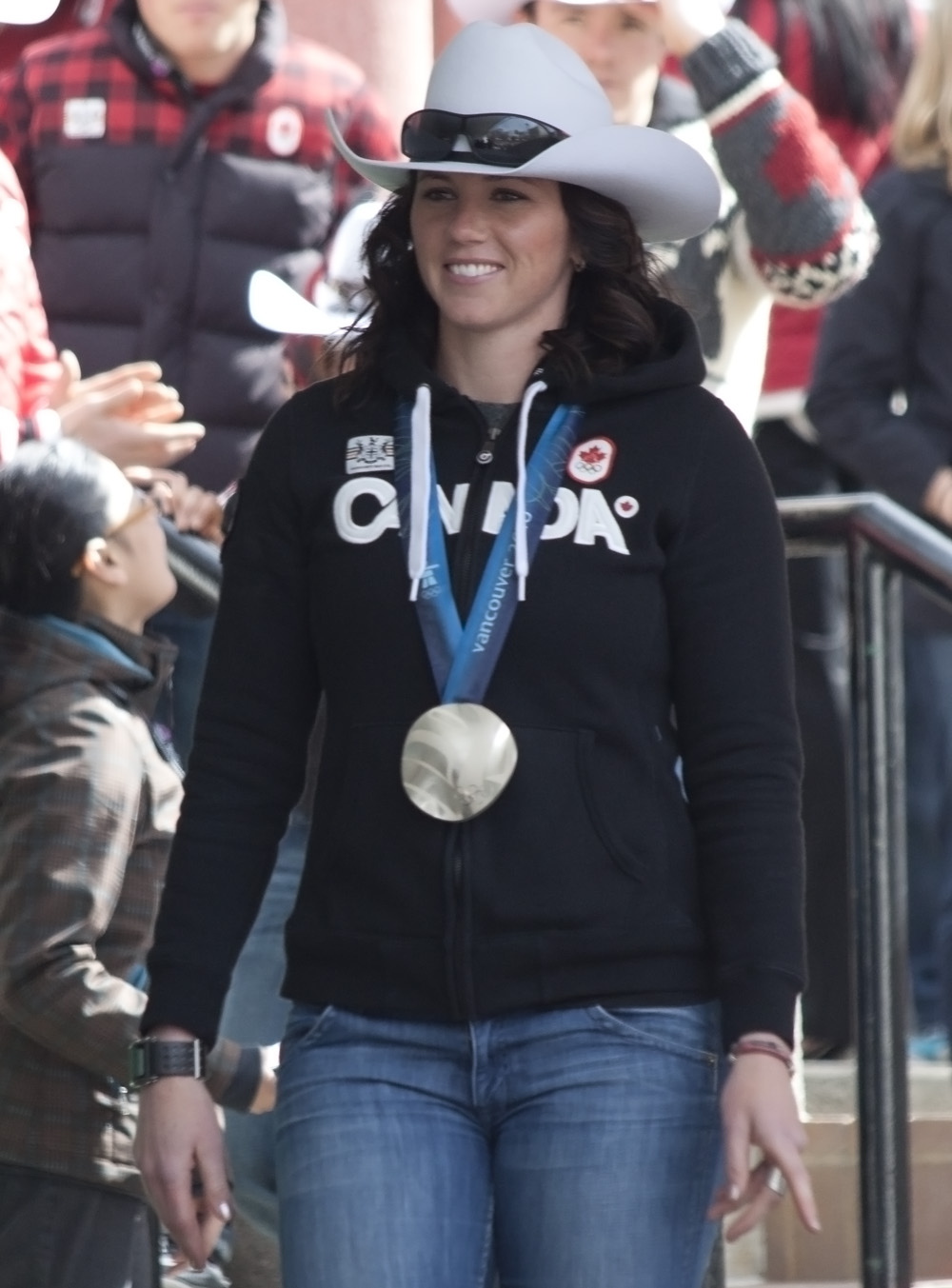 Helen Upperton at a salute to Canadian Olympians and Paralympians with a connection to Alberta, that was put on at the Olympic Plaza in Calgary, Alberta, Canada. The photo was cropped to remove other people and distractions, reduced in size to deal with noise from high ISO level